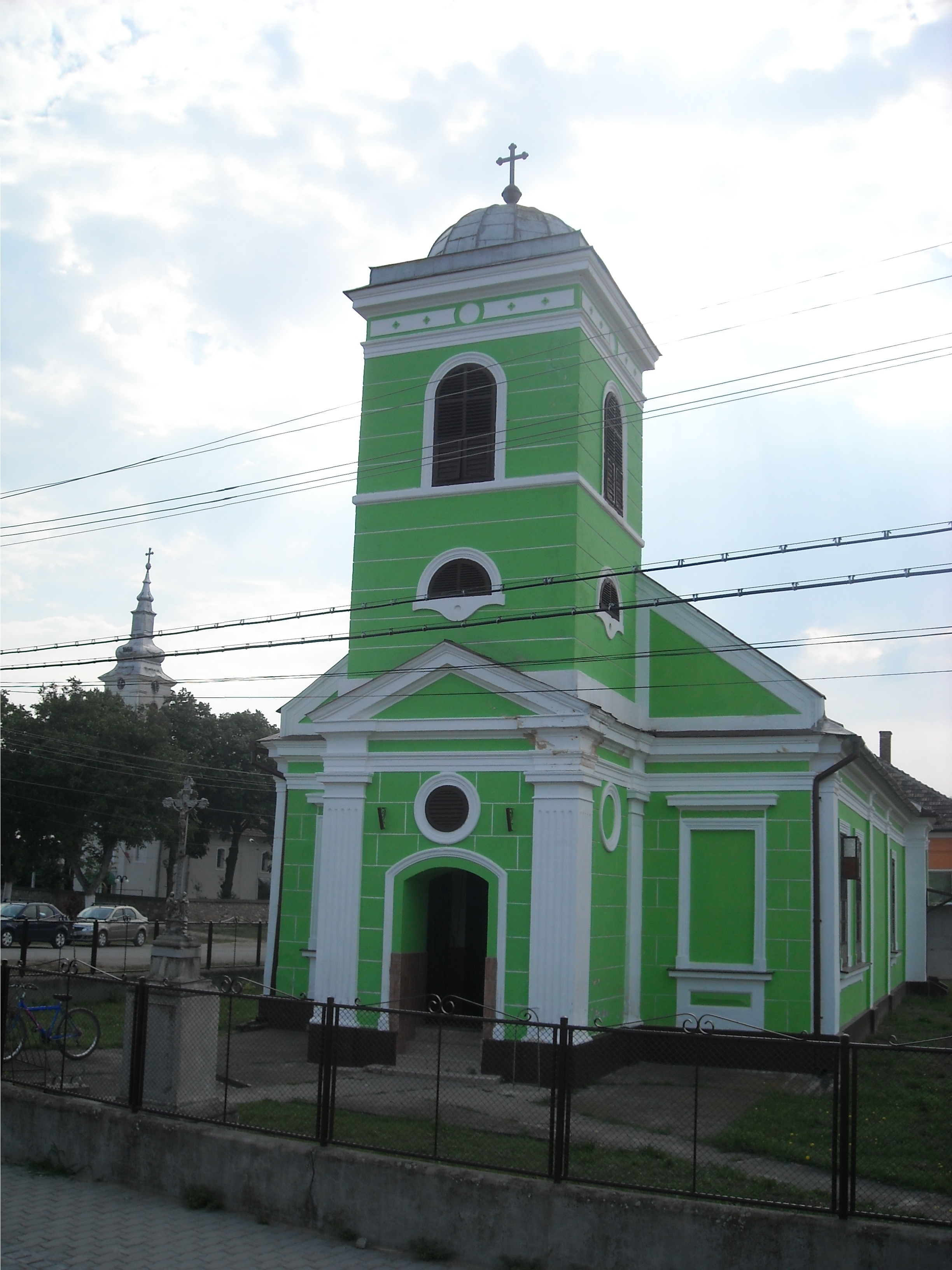 Roman Catholic church in Galşa/Galscha/Galsa, Arad County, Romania (with the Orthodox church in the background)